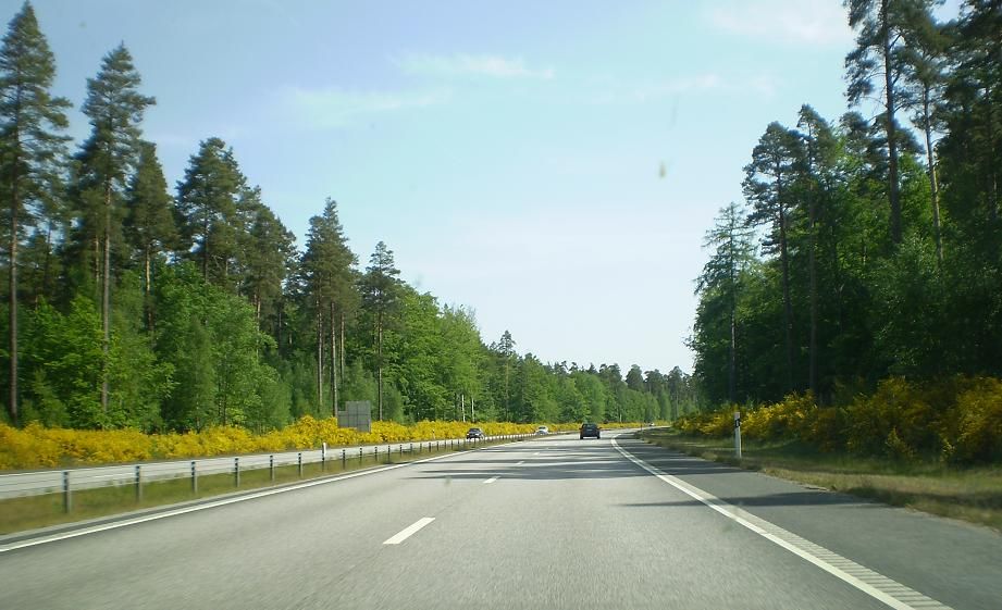 E22 motorway near Gualöv, Sweden